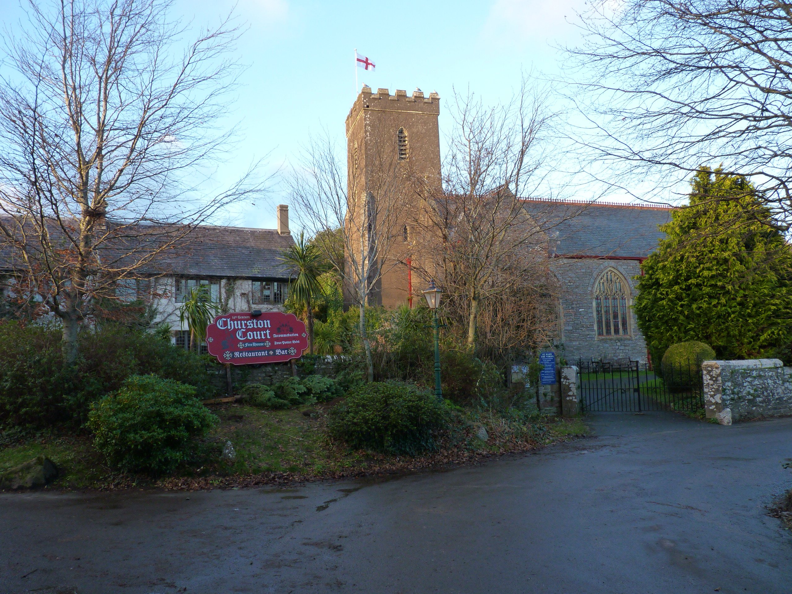 Churston Ferrers church and Churston Court Hotel, near Brixham